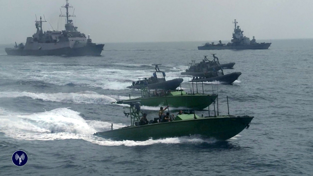 IDF forces seized an Iranian weapons shipment intended for terrorists in the Gaza Strip early Wednesday morning (March 5). Israel Navy Commander Maj. Gen. Ram Rothberg led the operation from aboard the Israeli ship, and Chief of the General Staff Lt. Gen. Benjamin "Benny" Gantz oversaw it from the Israel Navy operations room.